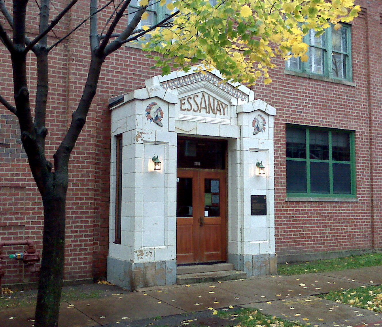 St. Augustine College, Chicago